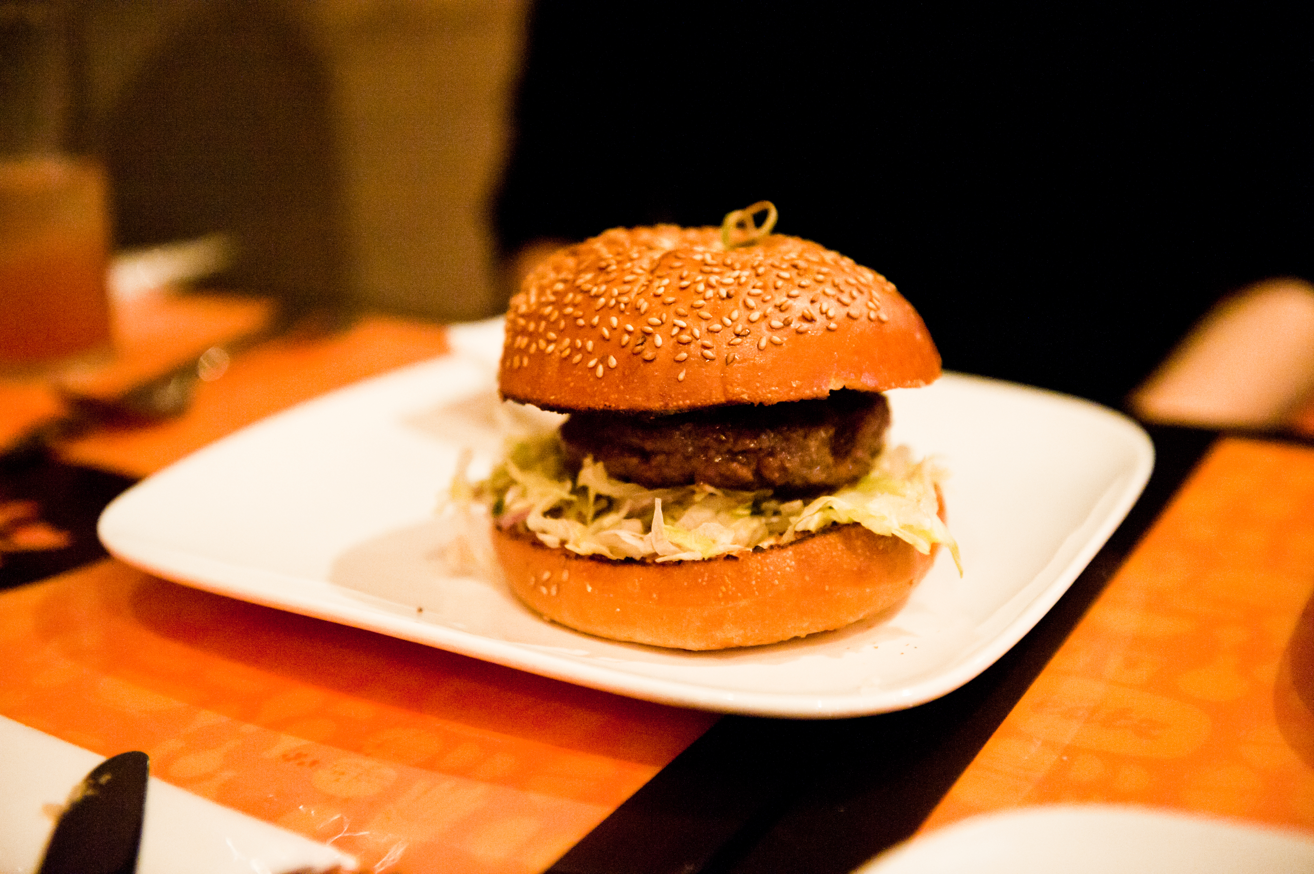 Bulgogi burger